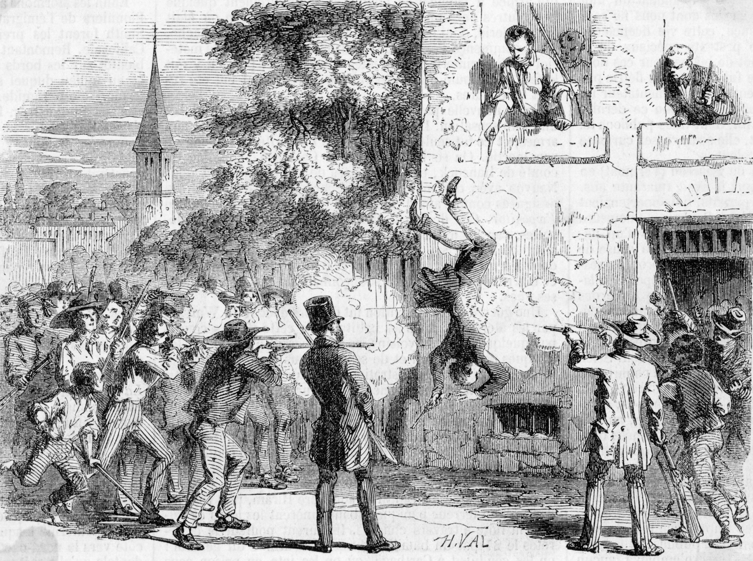 Etching depicting assassination of Joseph Smith (with credit given to "Corbis")